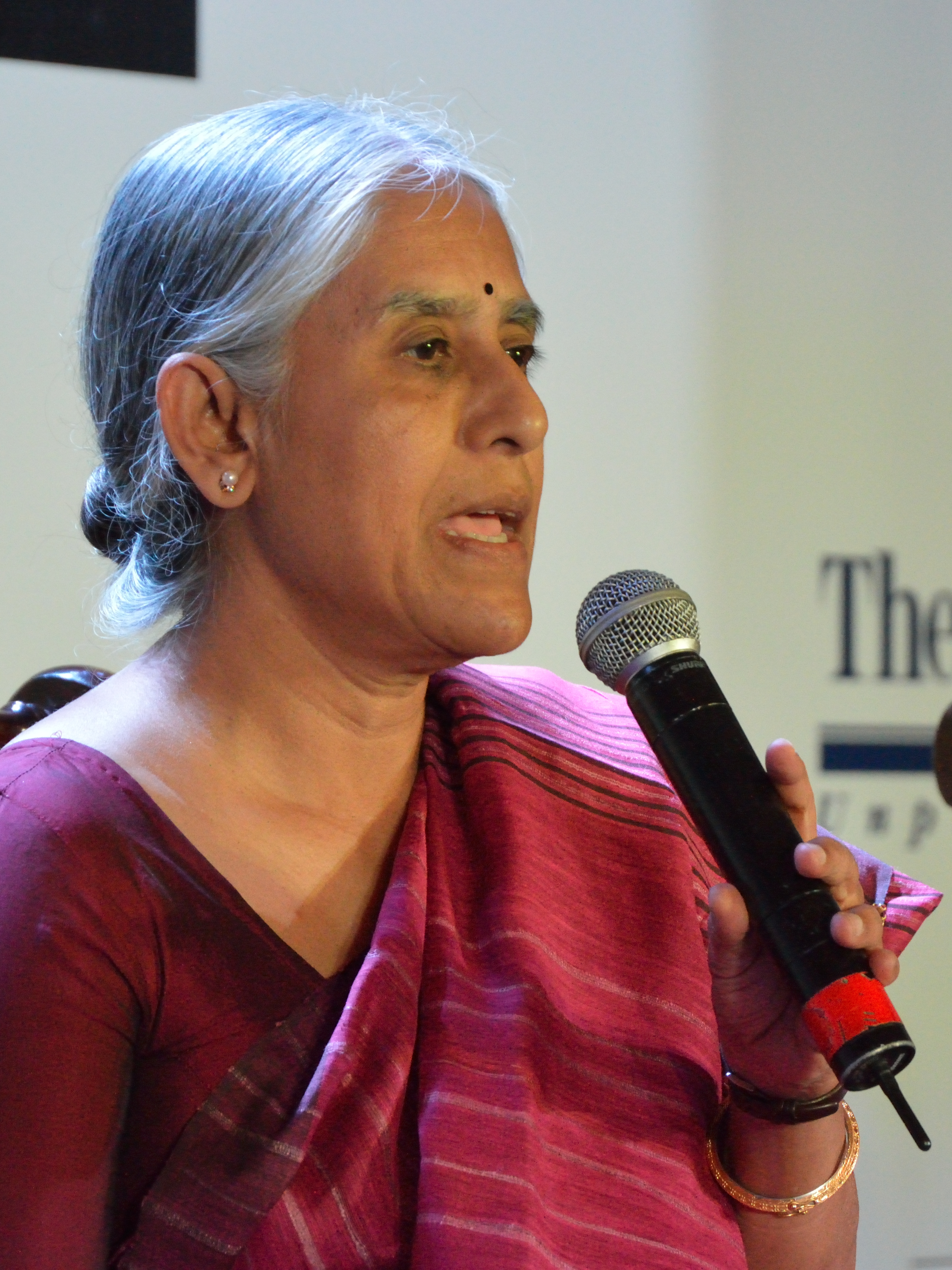 Supriya Chaudhuri is Professor of English and Co-ordinator of the Centre for Advanced Study in English at Jadavpur University, Kolkata. Her interests include Renaissance studies, cultural history, new literature, sport, the cinema and translation. Among recent publications are Petrarch: The Self and the World (co-edited: JU Press, 2012) and articles on the novel, domestic space, sport, and Shakespeare. She also reviews new fiction, and has acted as a judge for the Commonwealth, Crossword, and Sahitya Akademi awards. This shot was taken during the annual 'Kolkata Literary Meet 2013' was a part of the 'International Kolkata Book Fair 2013' held at the Milan Mela ground. It is a five day talk and interaction with general public of renowned persons from India and abroad.